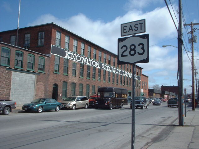 New York State Route 283 heading eastbound through the city of Watertown.